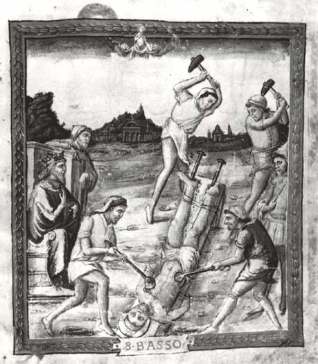 San Basso di Nizza